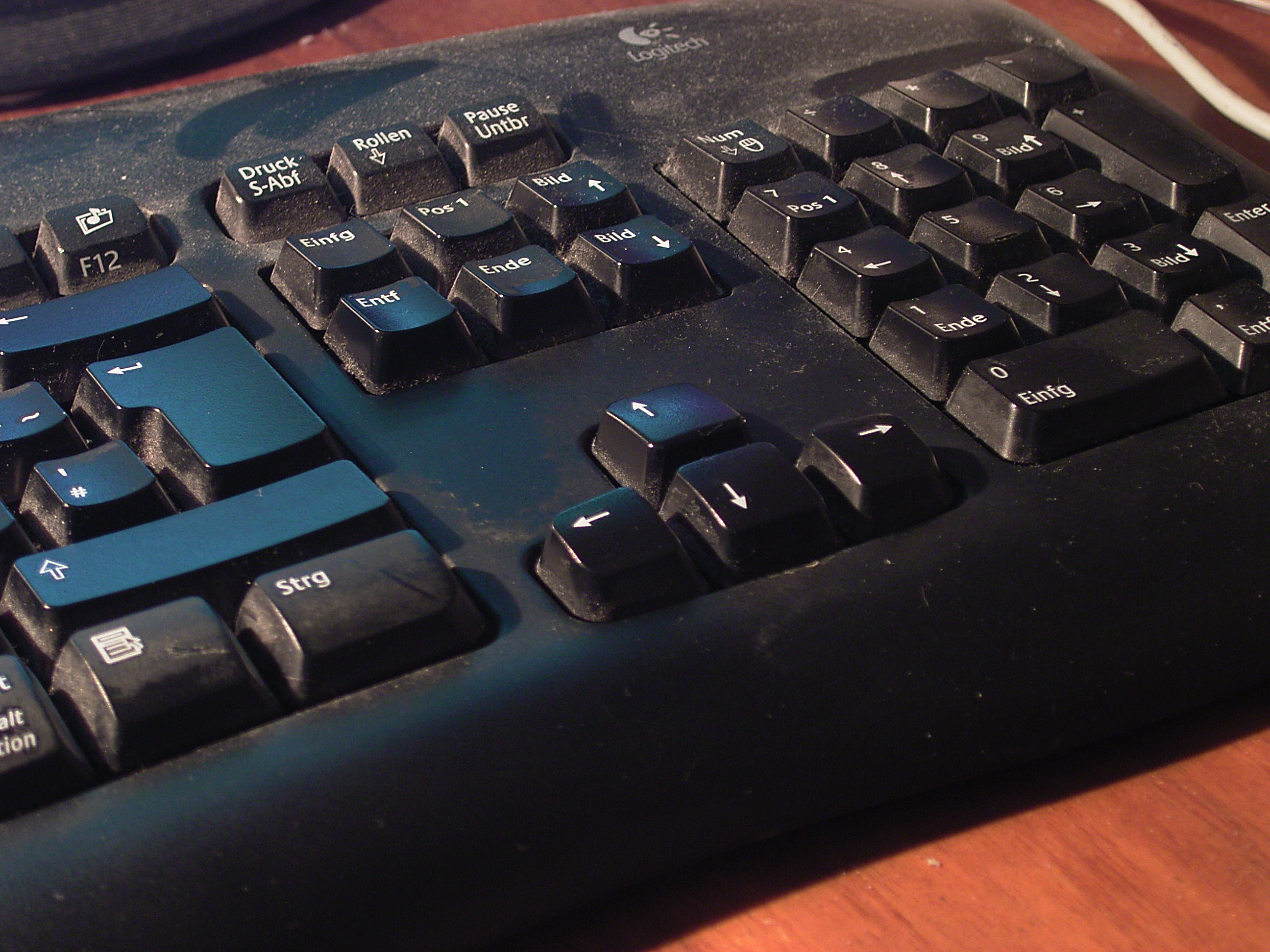 A dusty keyboard